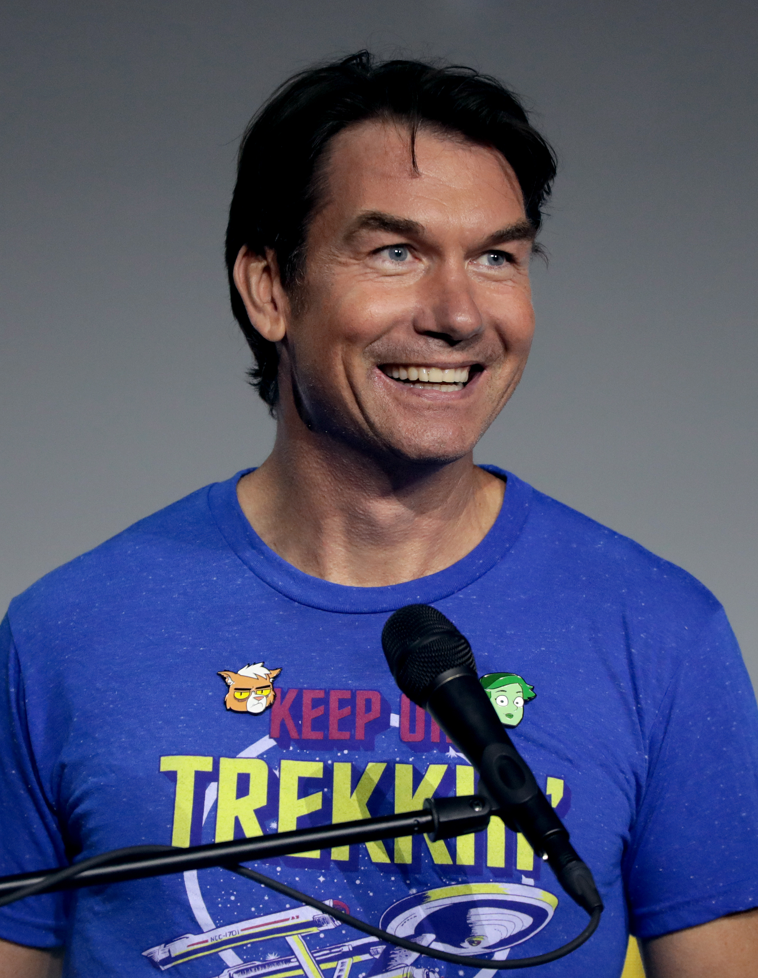 Jerry O'Connell speaking at the 2019 San Diego Comic-Con International in San Diego, California.